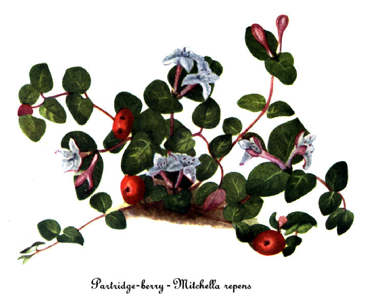 Watercolor painting of Mitchella_repens-4.